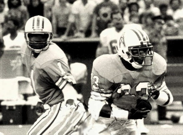 Houston Oilers' quarterback Warren Moon handing the ball off to teammate running back Mike Rozier during a 1987 home game.